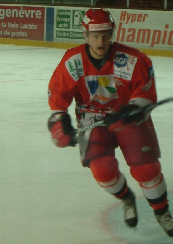 Edo Terglav, slovenian ice hockey player